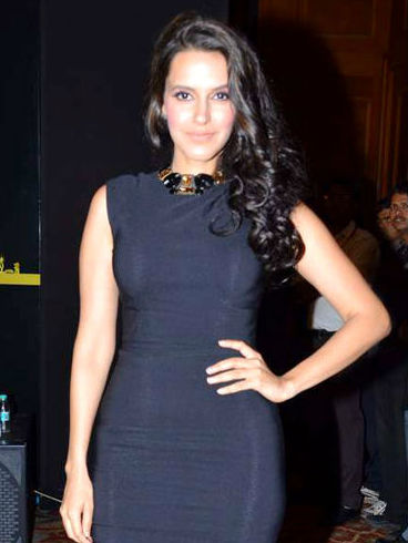 Neha dhupia iifa press confrence 2012